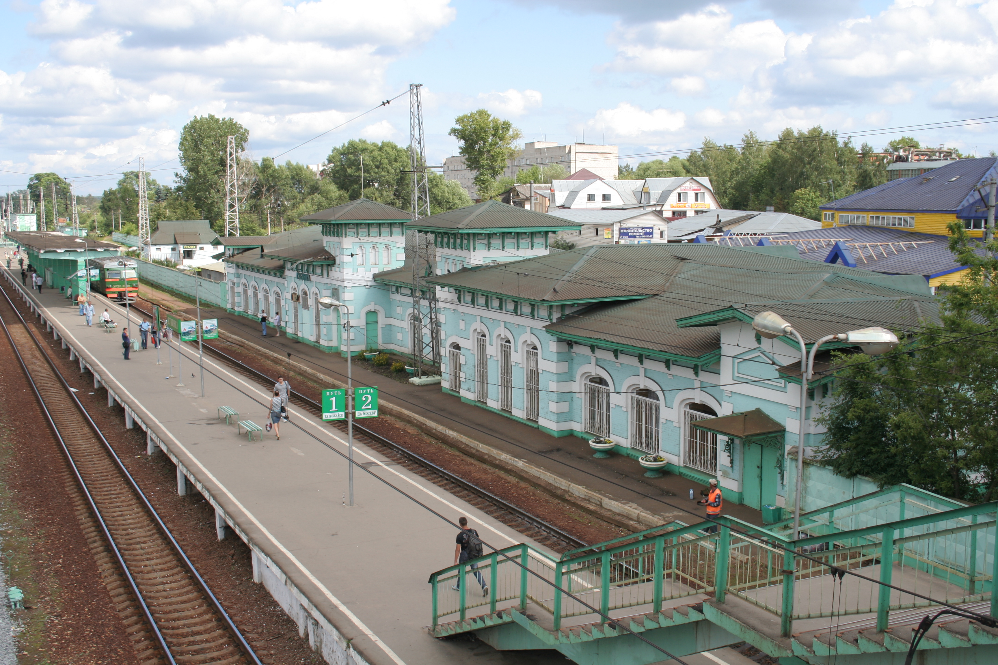 Railway terminal in Kubinka, Moscow Oblast, Russia